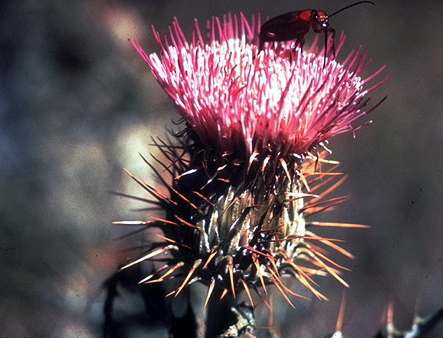 Cirsium ochrocentrum by Clarence A. Rechenthin. Courtesy of USDA NRCS Texas State Office.